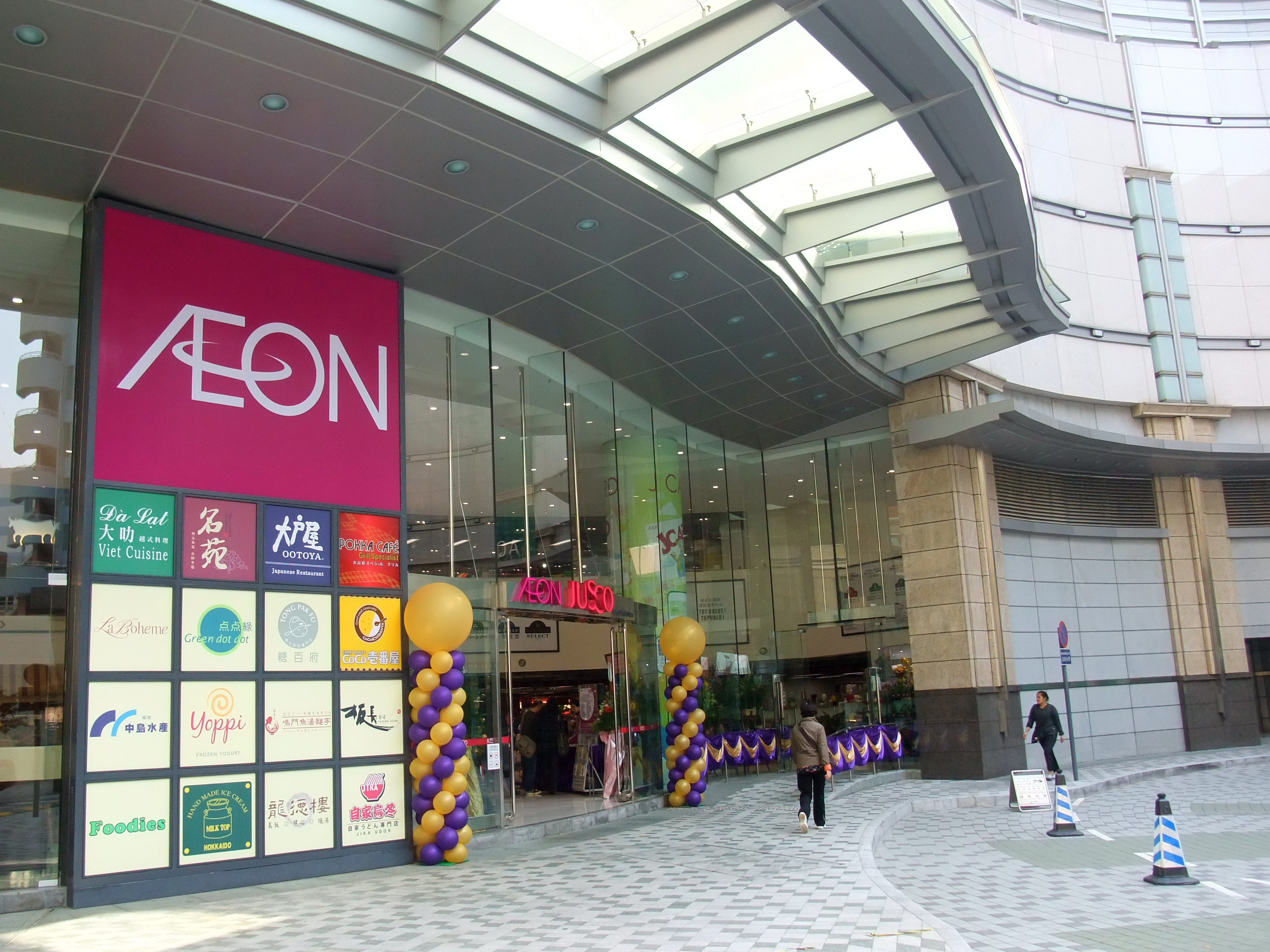 JUSCO Lai Chi Kok Store, north entrance, Kowloon, Hong Kong.